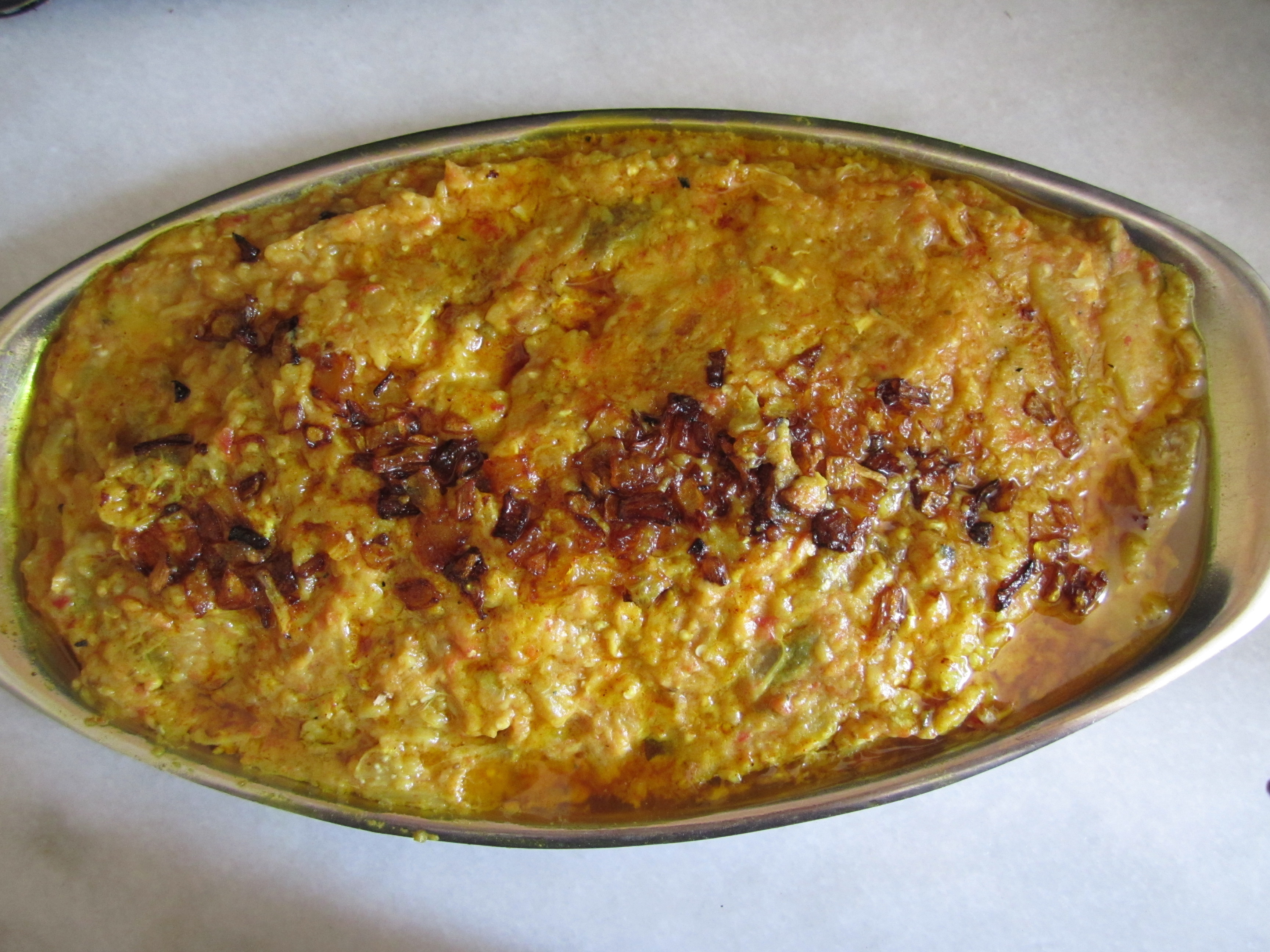 Mirza-Qasemi